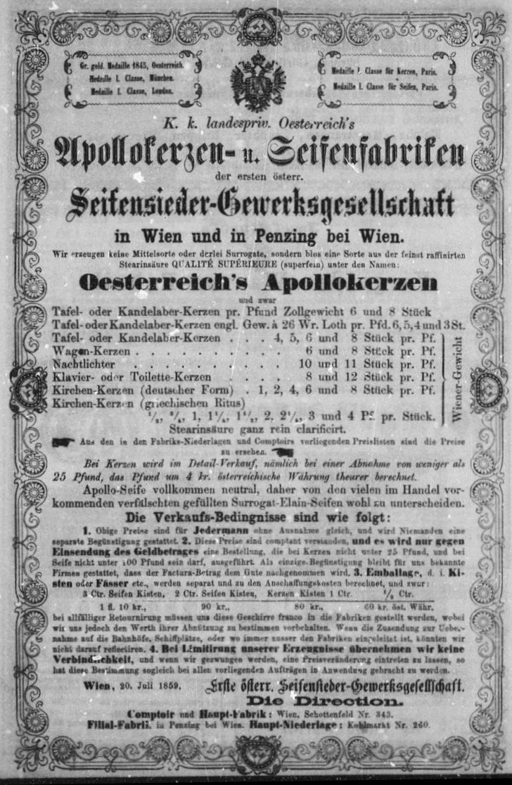 "Apollo" soap and candles advertisement.